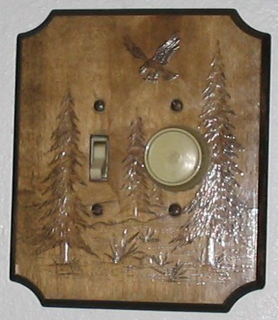 Two light switches with a decorative plate cover. David Benbennick took this photograph on December 20, 2004, for Light switch; it should be improved or replaced later.